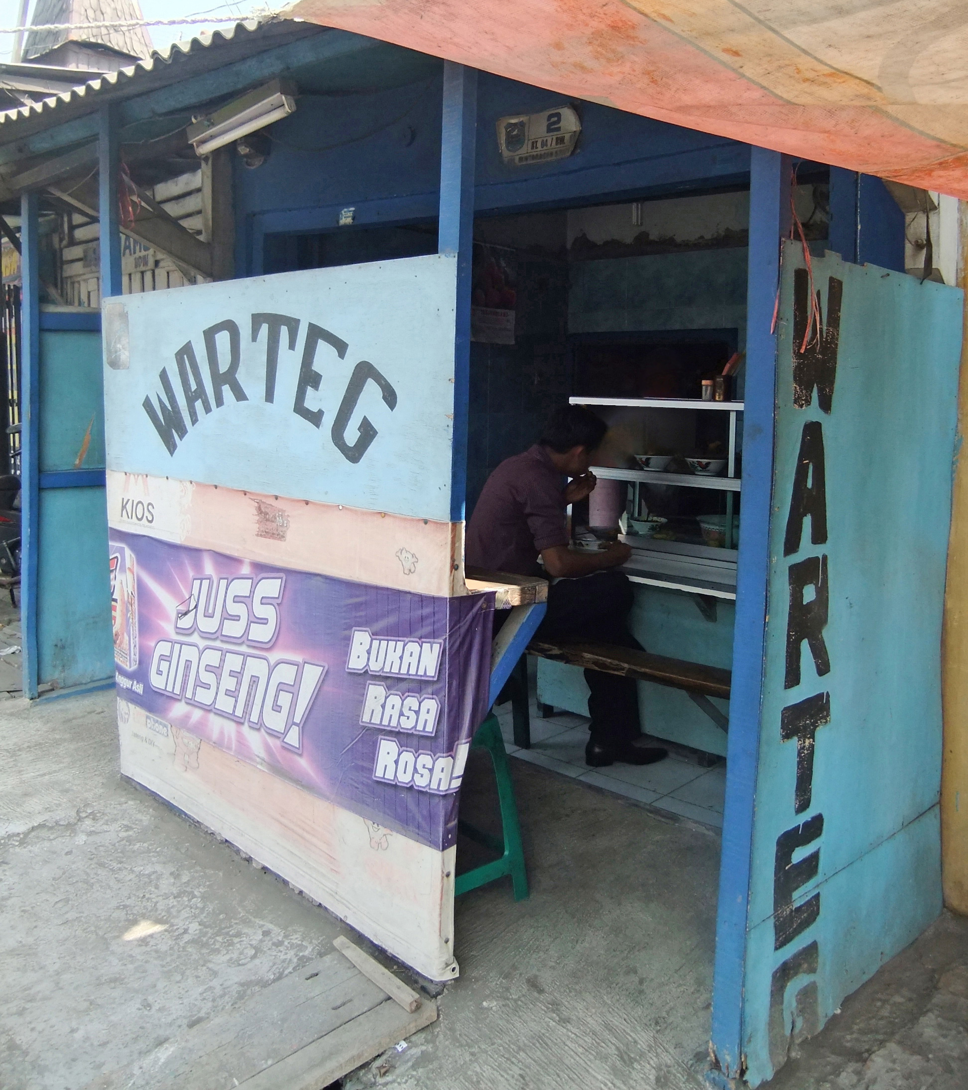 Warung Tegal in Tegal, Indonesia